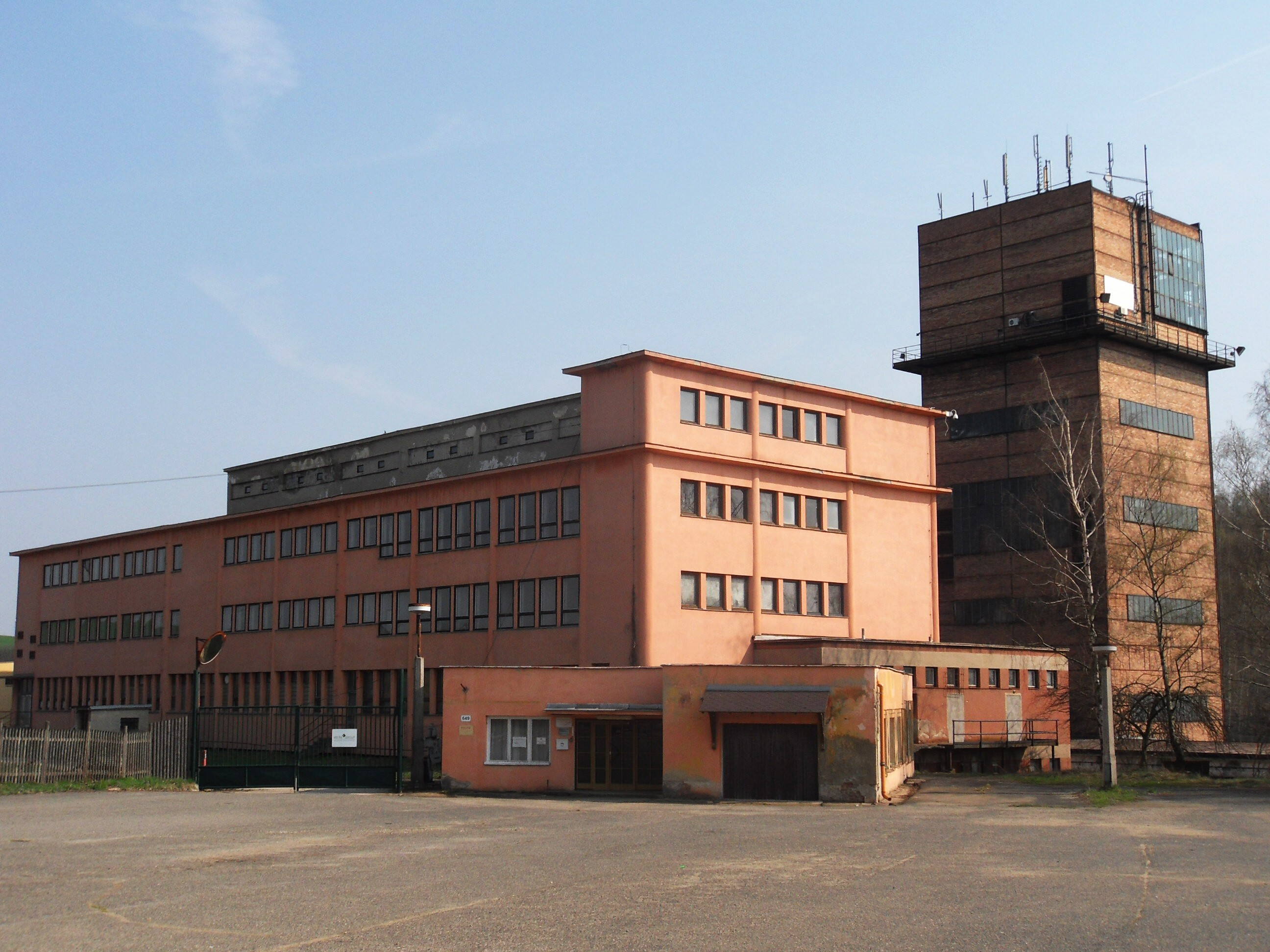 Former Jindřich II coal mine, Zbýšov, Brno-venkov District, Czech Republic